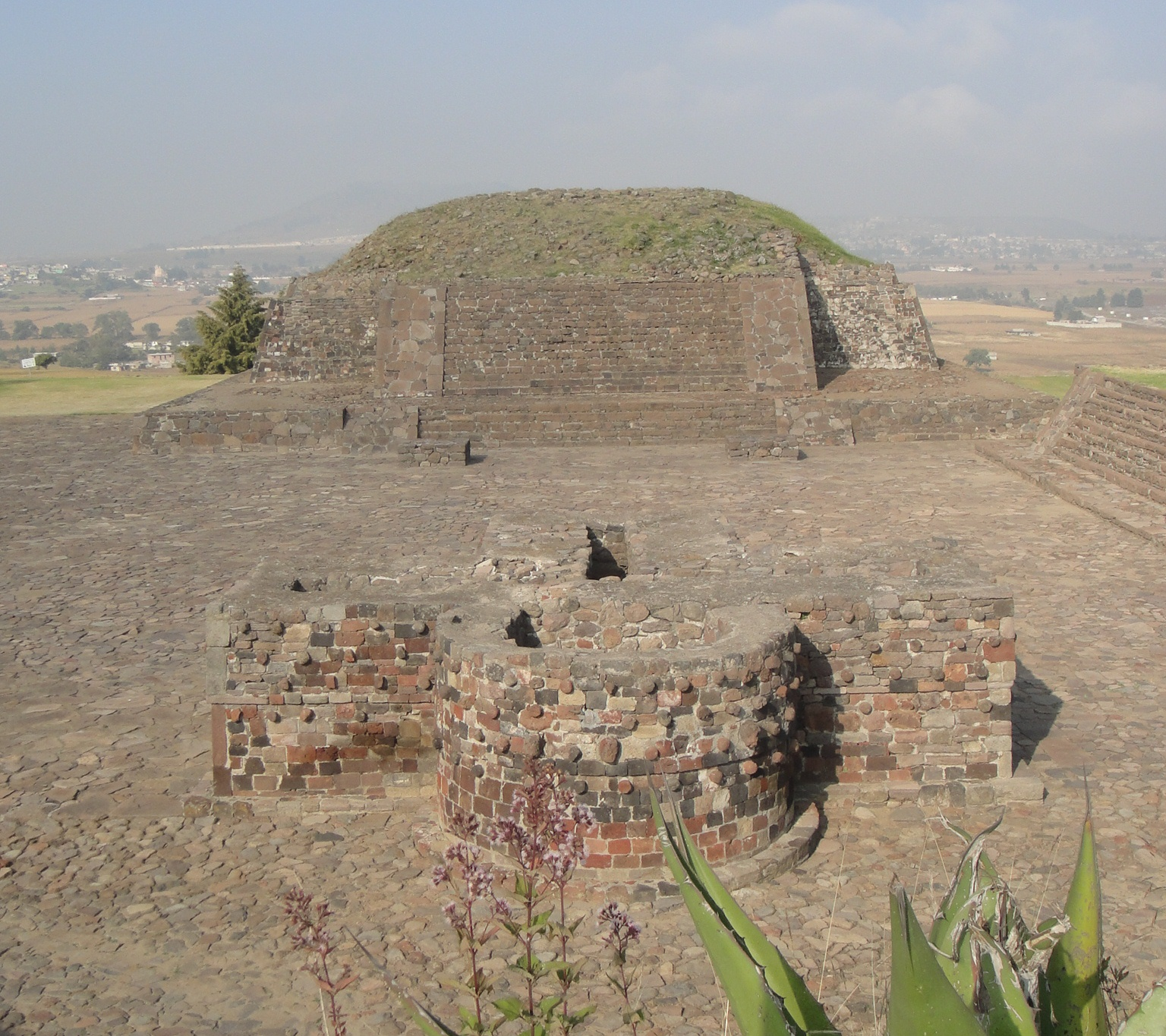 Tzompantli at Structure 4